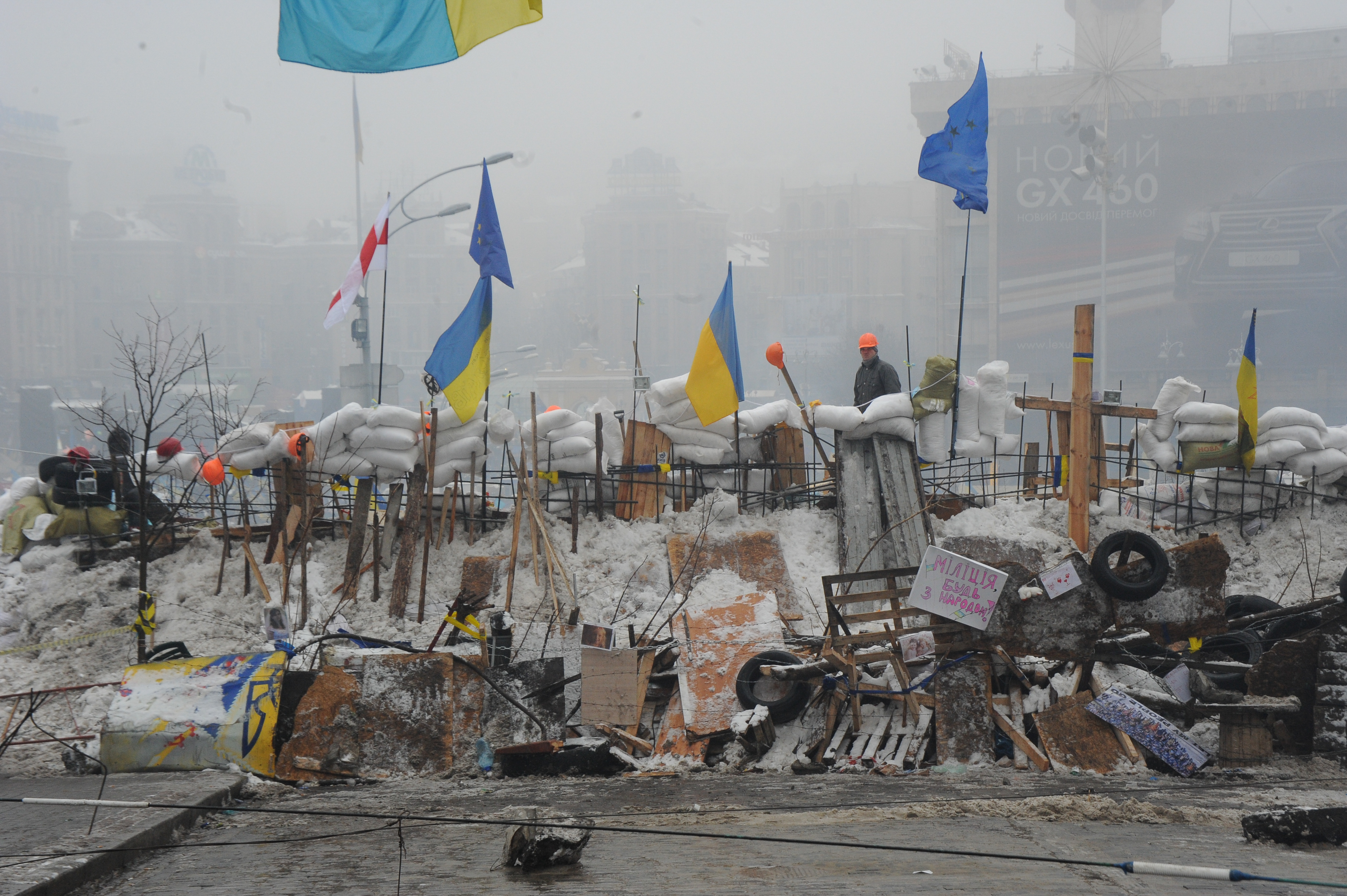 Despite the adverse weather conditions, protesters restored and rebuilt barricades under the snow in Maidan square. Kiev, Ukraine. December 12, 2013.